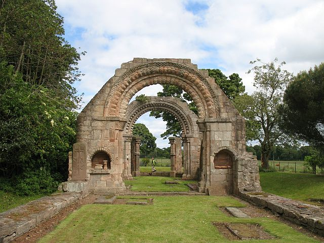 St Baldred's Church The Norman parish church of Tyninghame, until the village was moved to its current site in the mid 18th century.